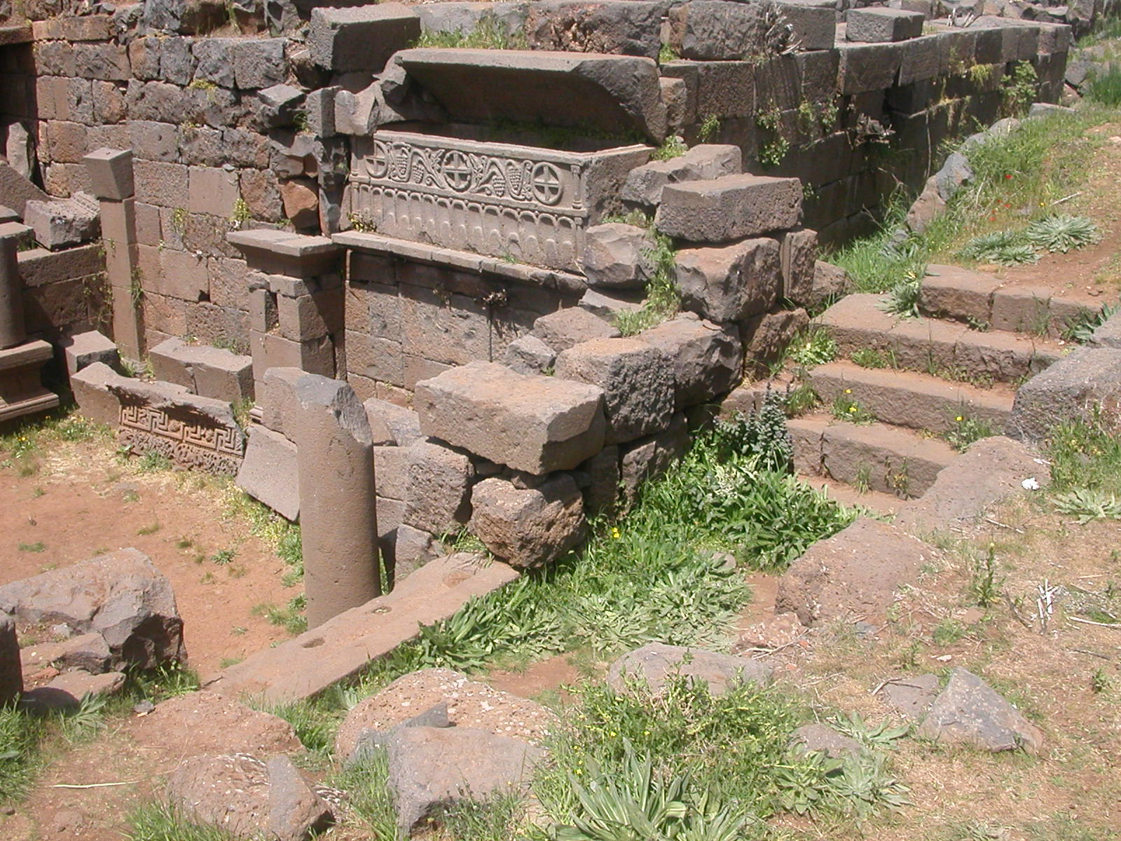 Sarcophagus in the Serai, ruins of a late 4th century church in Qanawat, Syria